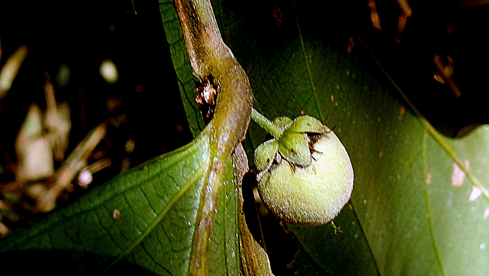 Casearia commersoniana Cambess.